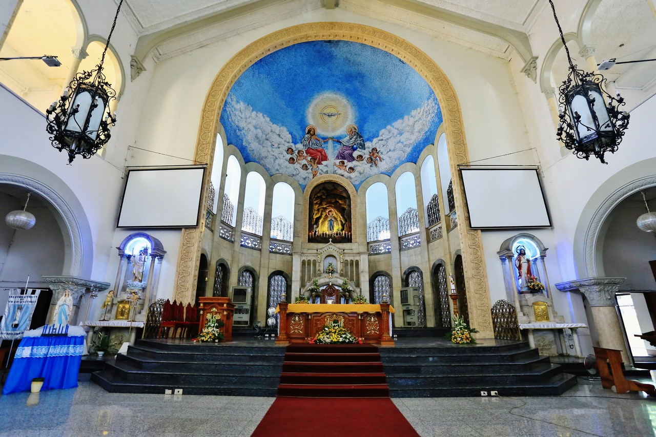 Altar of the National Shrine of Our Lady of Lourdes